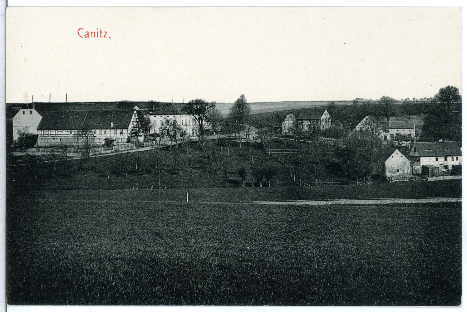 This postcard is from publisher Brück & Sohn in Meißen ( This postcard has a unique number 13082 and is available in a higher resolution at the publisher. This images was uploaded in a cooperation project between Wikipedians and the publisher.